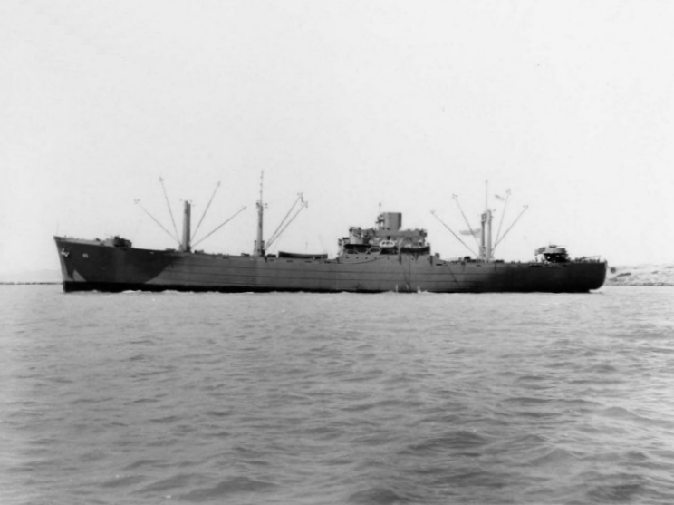 The U.S. Navy ammunition ship USS Rainier (AE-5) at anchor off the Mare Island Naval Shipyard, California (USA), on 30 June 1943.